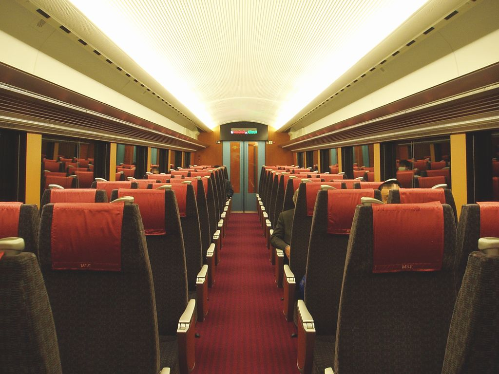 Inside of Odakyu ROMANCECAR Type 60000"Multi Super Express"